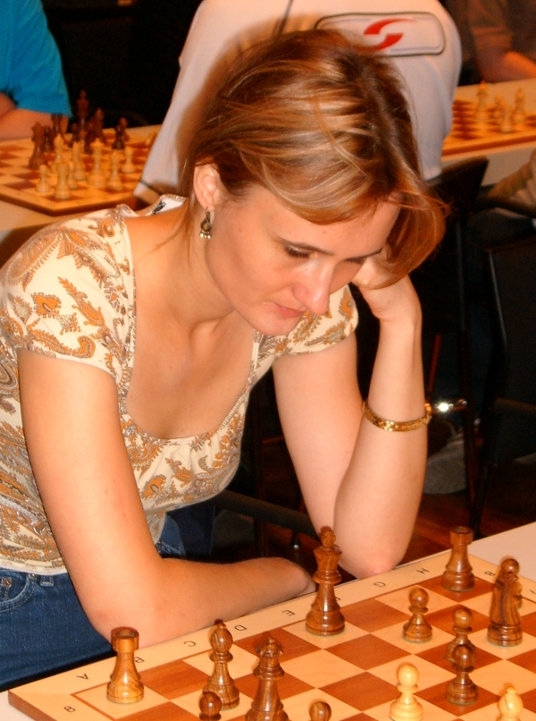 Viktorija Čmilytė, Lithuanian chessplayer (Woman Grandmaster)